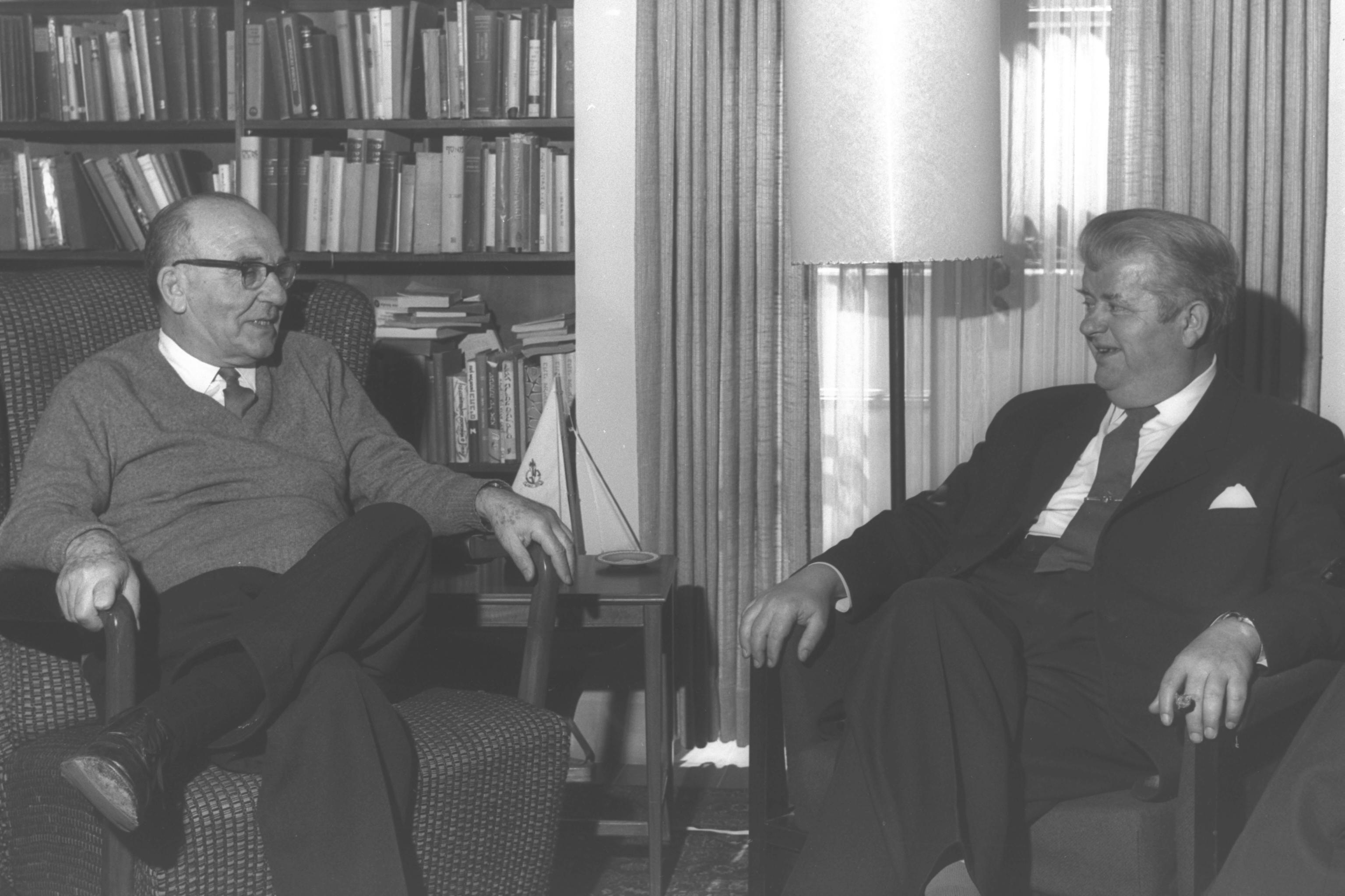 Israeli Prime Minister Levi Eshkol at a meeting with the Danish Foreign Minister Per Hækkerup, January 9, '66.